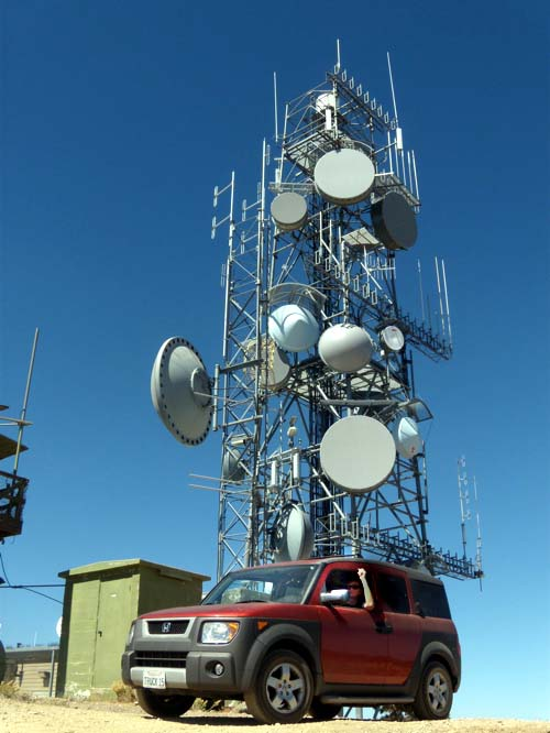 Communication tower with dishes for microwave relay links on Frazier Peak in the San Emigdio Mountains, Ventura County, California. It serves the Mountain Communities of the Tejon Pass, and other entities. The dishes have radomes, plastic sheets covering their apertures, to keep moisture out. A Honda Element is parked in front.